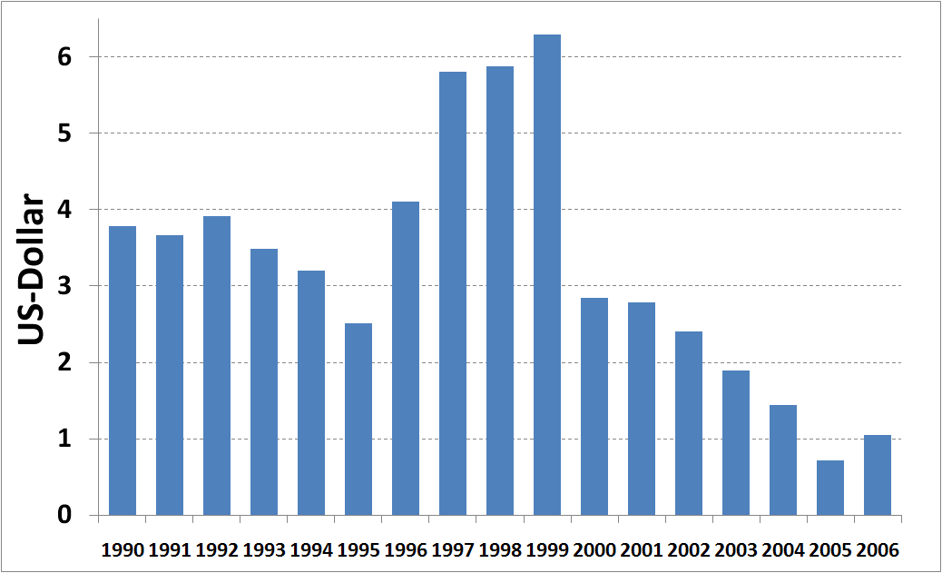 Annual Investment per capita in Costa Rica in water supply and sanitation (1990-2006)